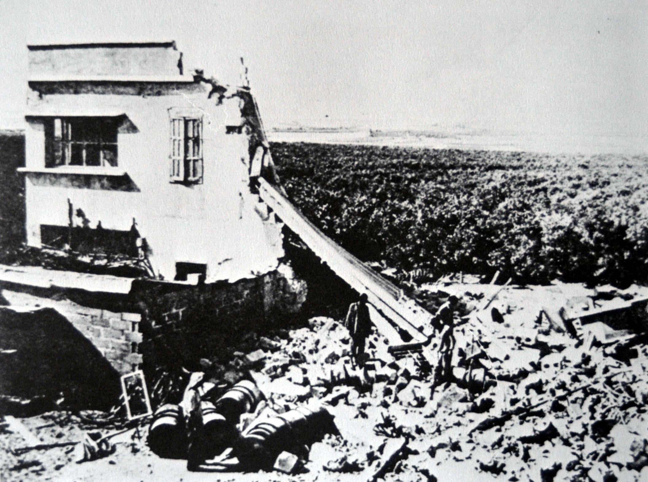 "The farmhouse of the Abu Laban family, prosperous Palestinian orange growers, near Petah Tivka. On 15 August 1947 the house was attacked and blown up by the Haganah, the official Zionist military organisation. Twelve occupants, including a mother and six children, were killed. The Palestinians had been quiescant since 1939, and this first majot post-World War II terrorist attack by the Haganah was an ominous harbinger of later developments. The Haganah was under the command of David Ben-Gurion."